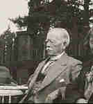 Anton Napoleon Hahn (1846-1929), Örebro, Sweden, factory owner and member of the Riksdag.